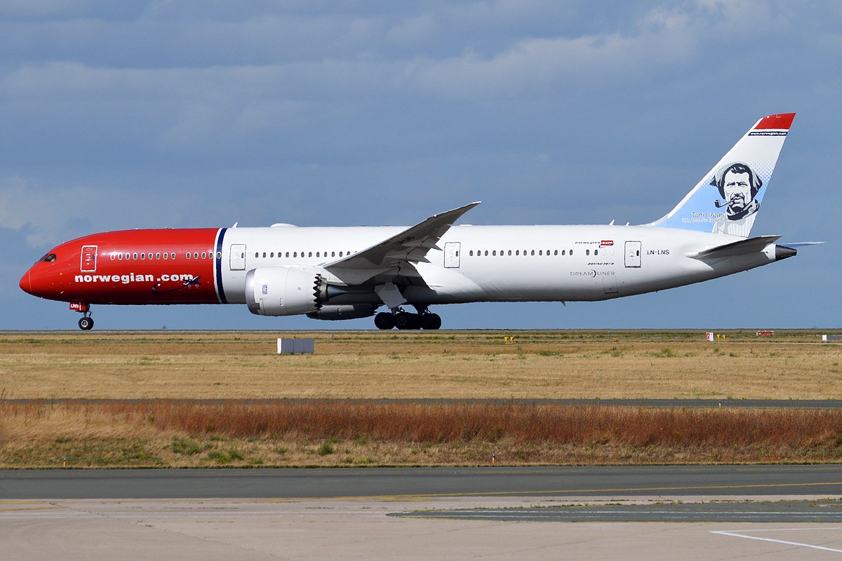 Norwegian (Tom Crean Livery), LN-LNS, Boeing 787-9 Dreamliner